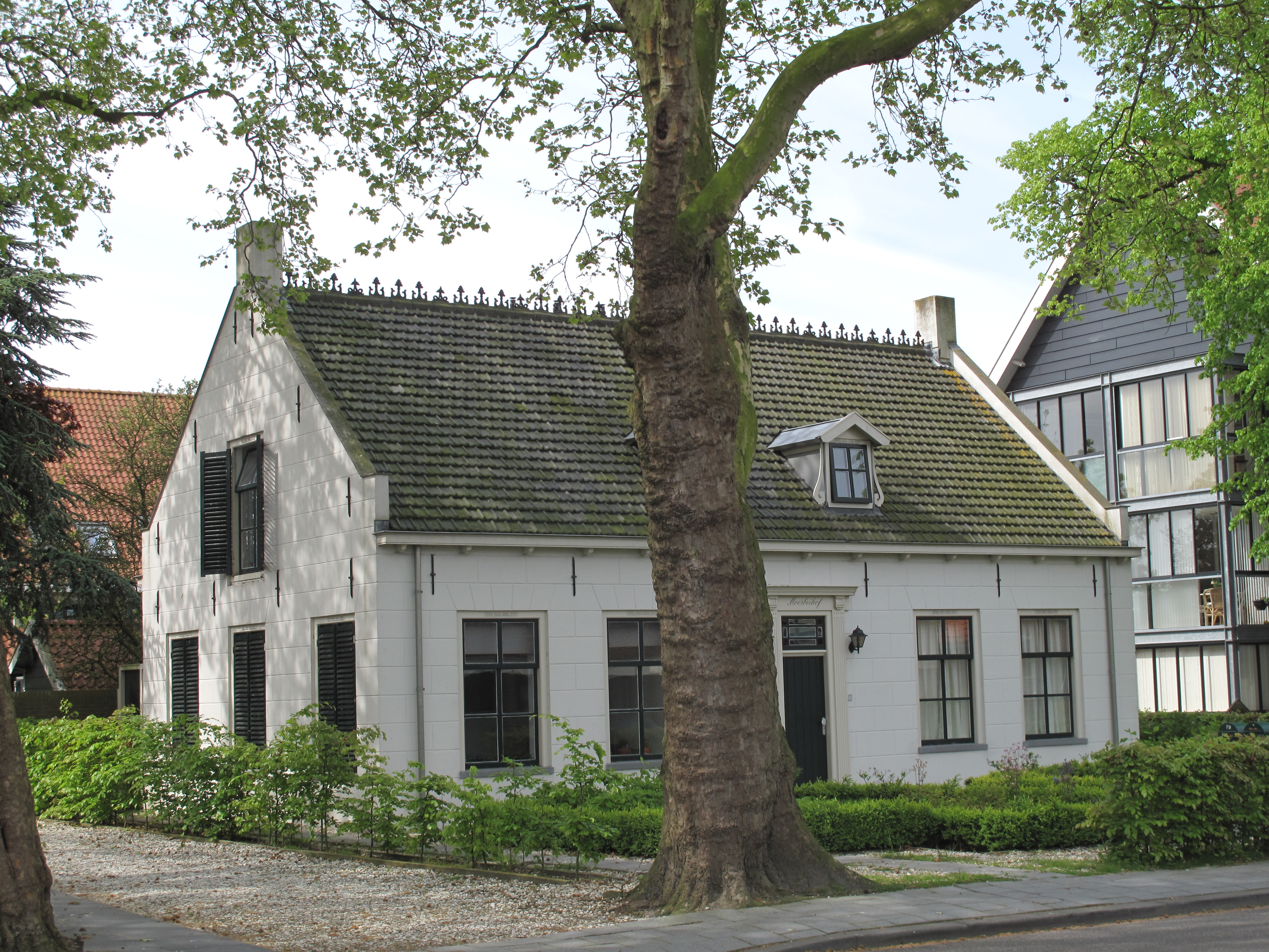 Krabbendijke, monumental farmer house